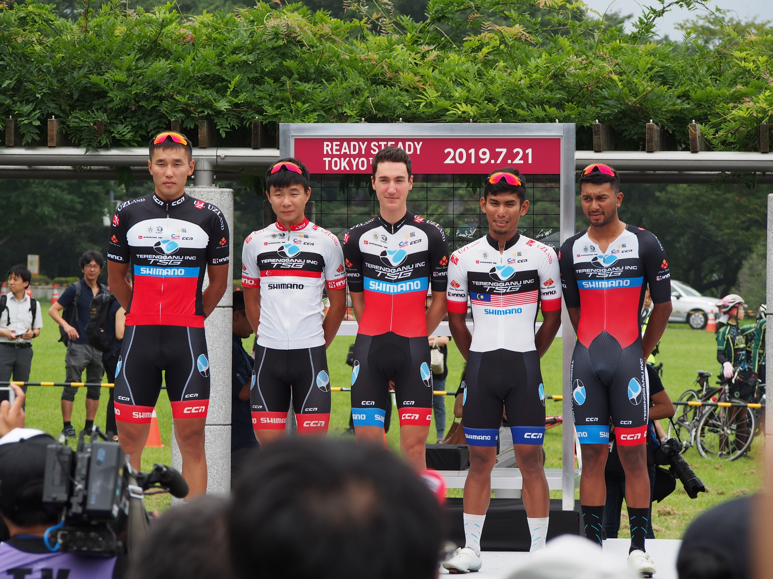 Terengganu Inc TSG Cycling Team at the sign-on and team presentation before the start of Tokyo 2020 Test Event, in Musashino-no-mori Park, Tokyo, Japan.